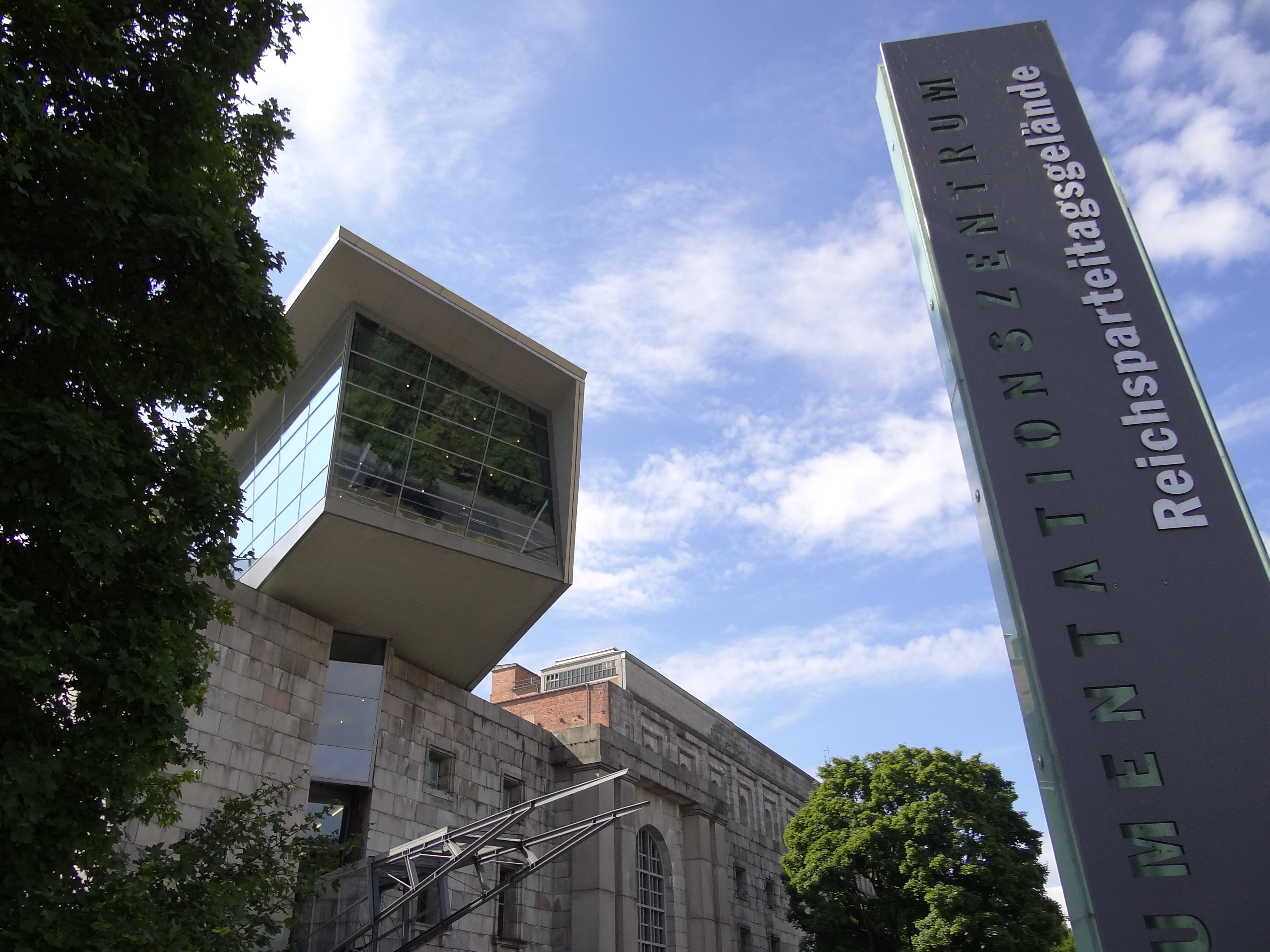 Facade of Documentation Center in Albert Speer-Designed Congress Hall - Nuremberg-Nurnberg - Germany - 01